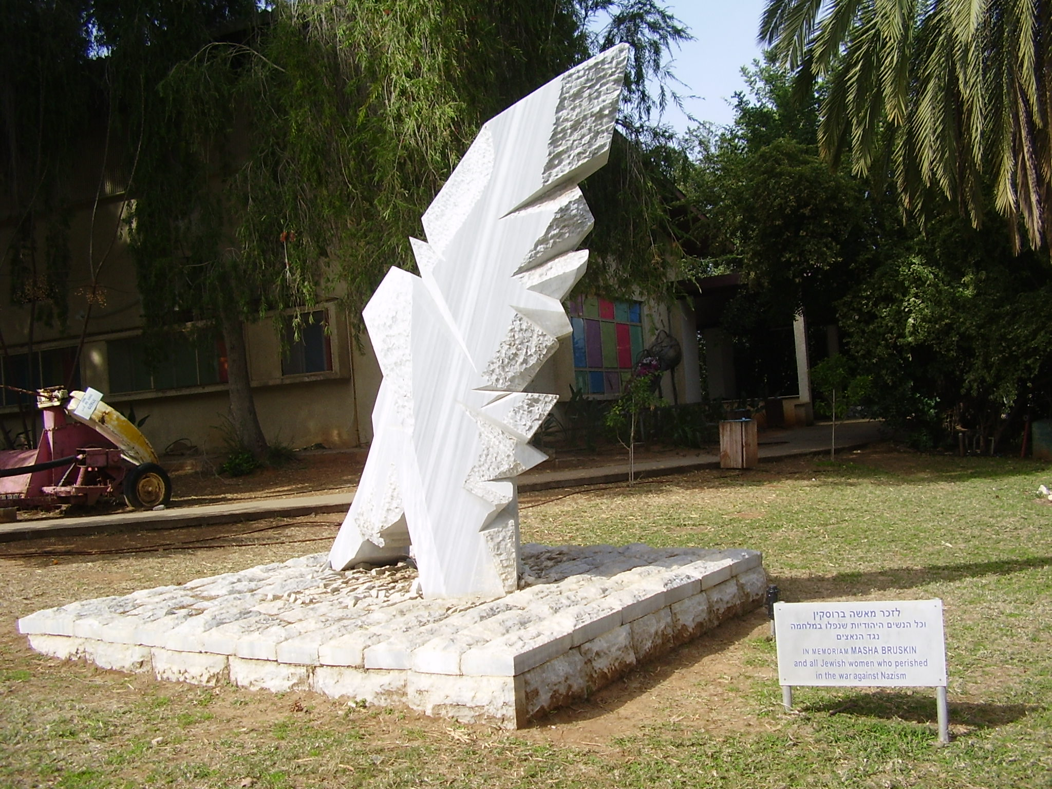 memorial to masha bruskin and jewish women fighters who perished in the war against nazism, in the green village, israel.